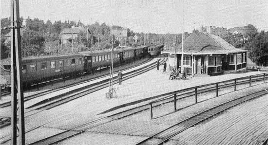 Djursholm Ösby's station 1920